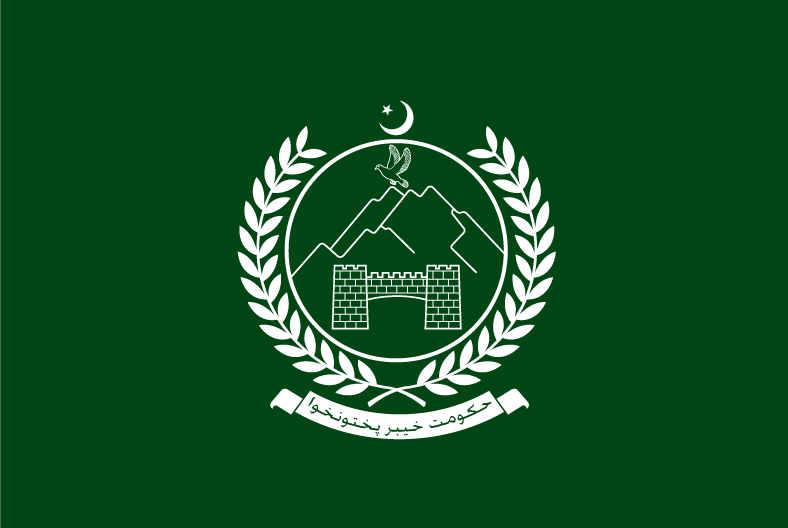 KP flag